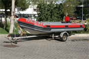 AHBVPA-BRTS 01